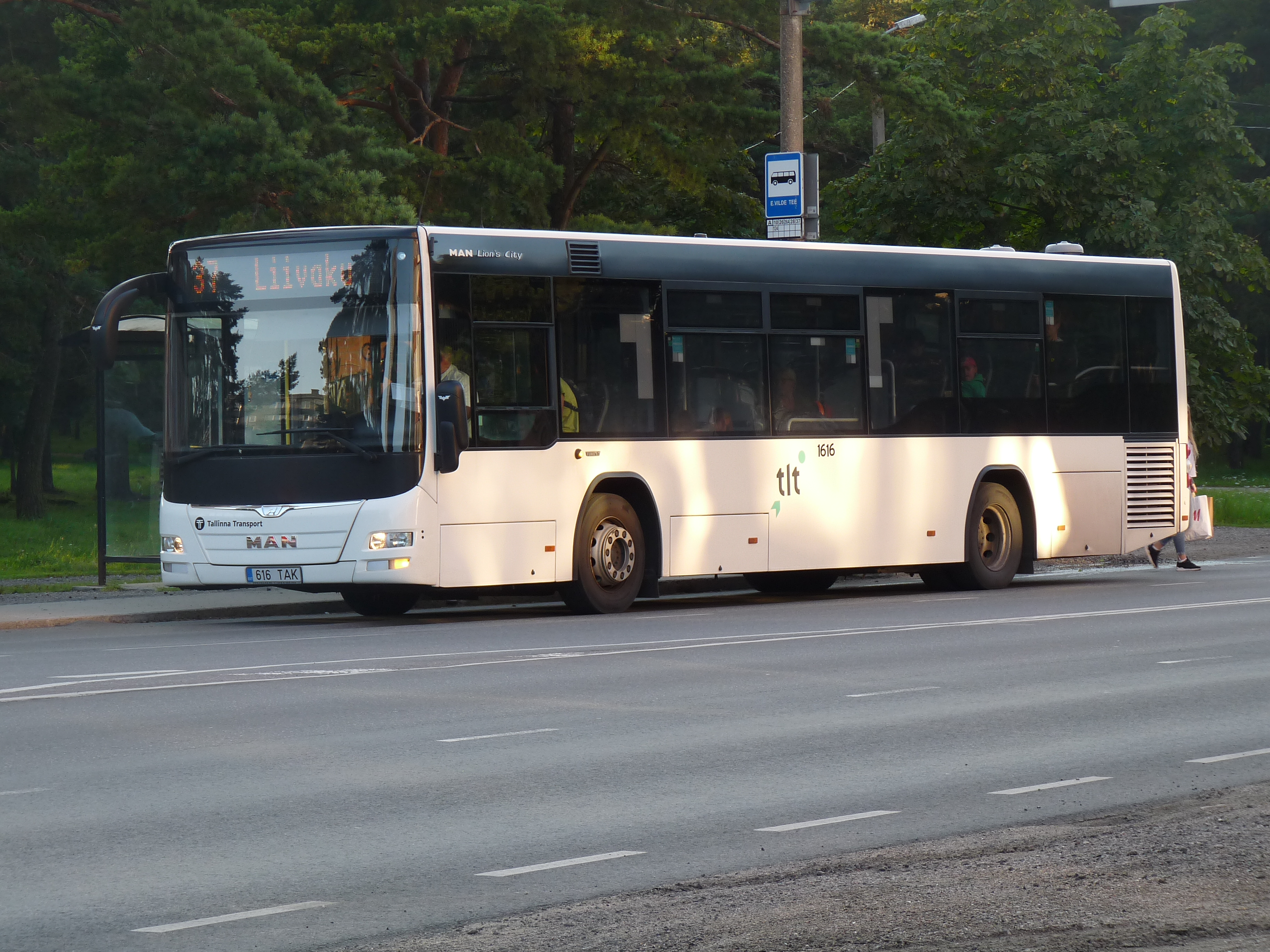 MAN bus in Tallinn, Estonia